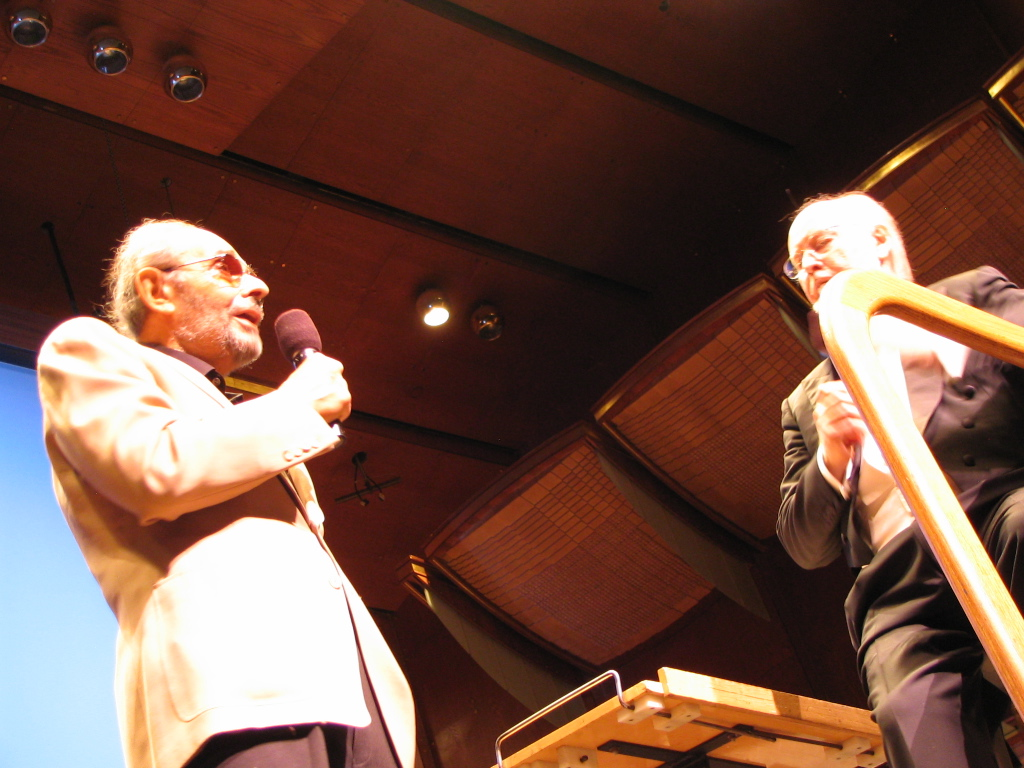 A photo taken by me of Stanley Donen and John Williams.